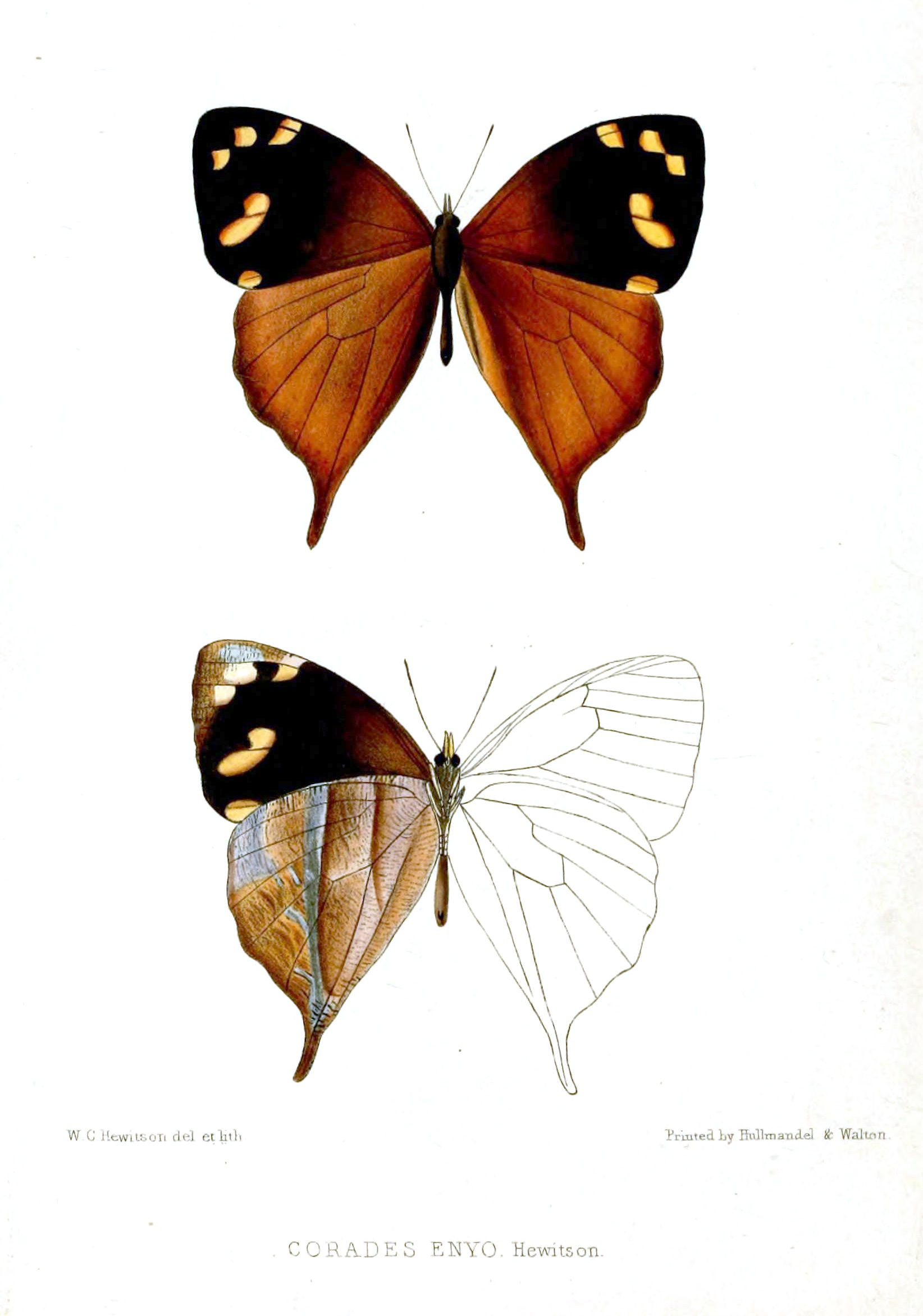 Corades Enyo, "mountains of Caraccas" = Corades enyo enyo Hewitson, 1848